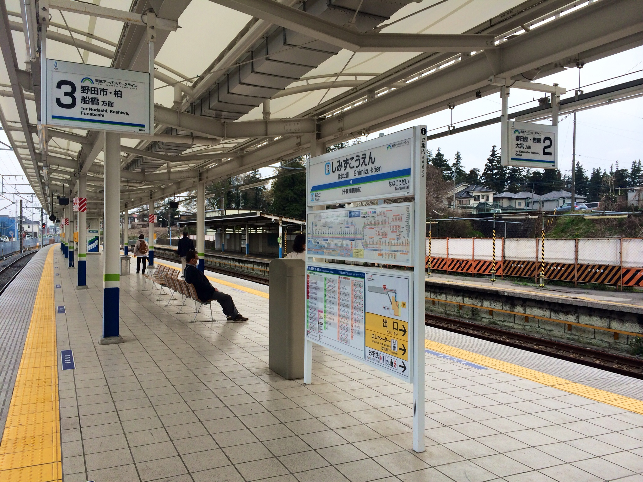 The platforms at Shimizu-kōen Station on the Tobu Urban Park Line